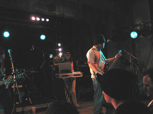 Indonesian musicians in concert, audience members in foreground